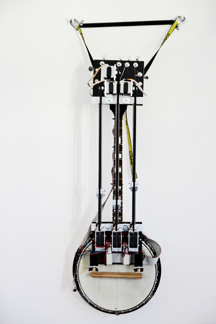 The BowJo is an electromechanical musical instrument, played via an Arduino interface by computer software. It consists of three monochords. Electromagnets induce the vibration of the monochords.